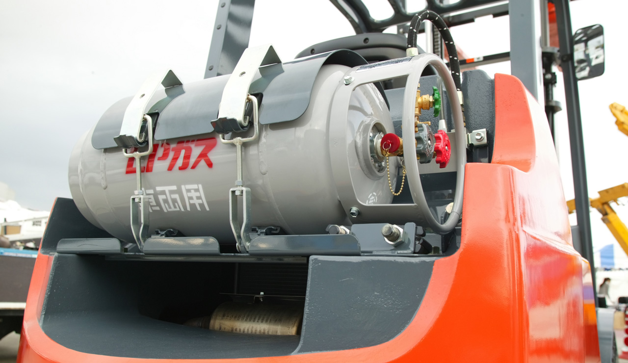 Japanese in-vehicle LPG bottle on Forklift